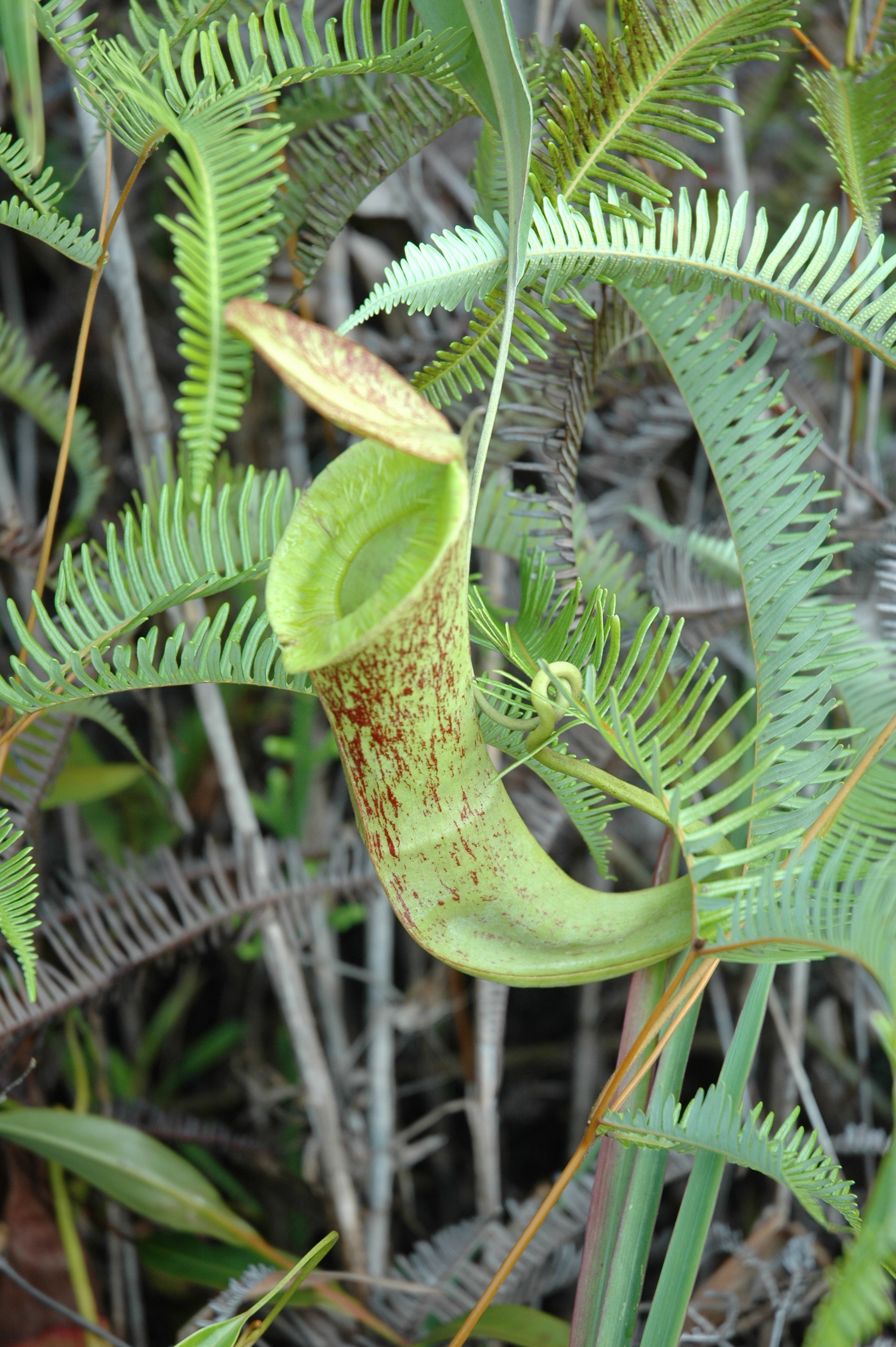 Nepenthes mirabilis var. echinostoma Miri roadside by Jeremiah Harris